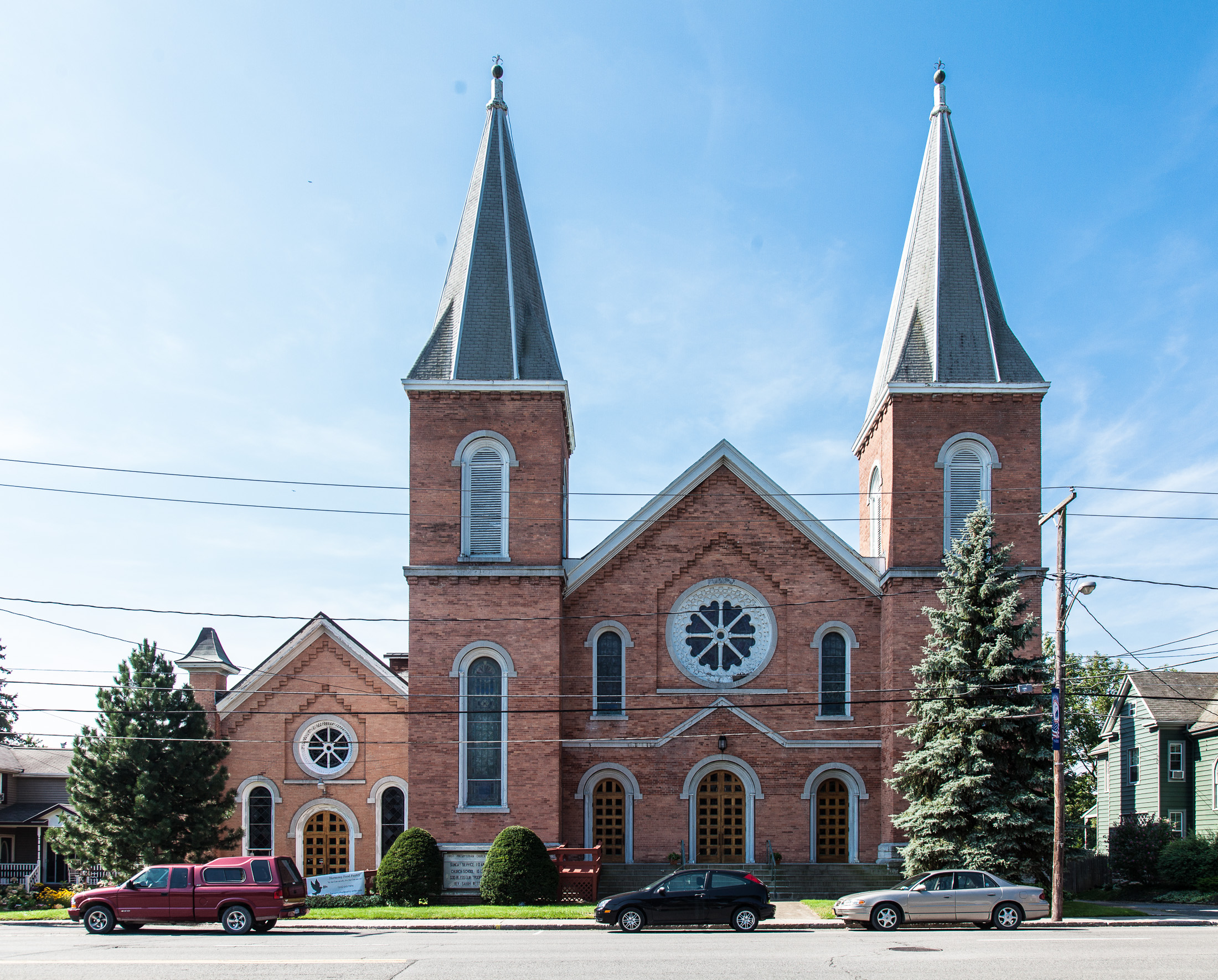 First Presbyterian Church, E. Main St., east of the junction with NY 96 Waterloo